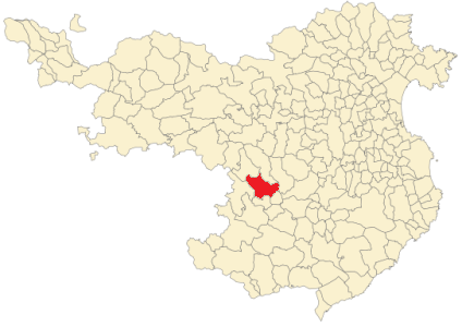 Amer